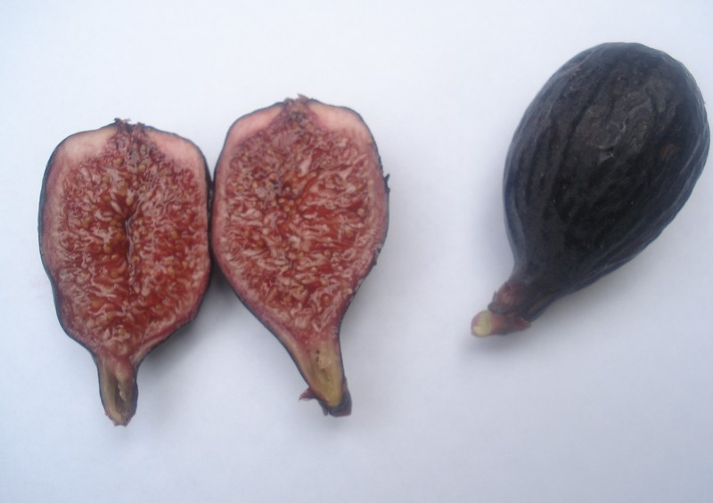 Brebas of the Ficus carica fig variety Negronne in Vienna.